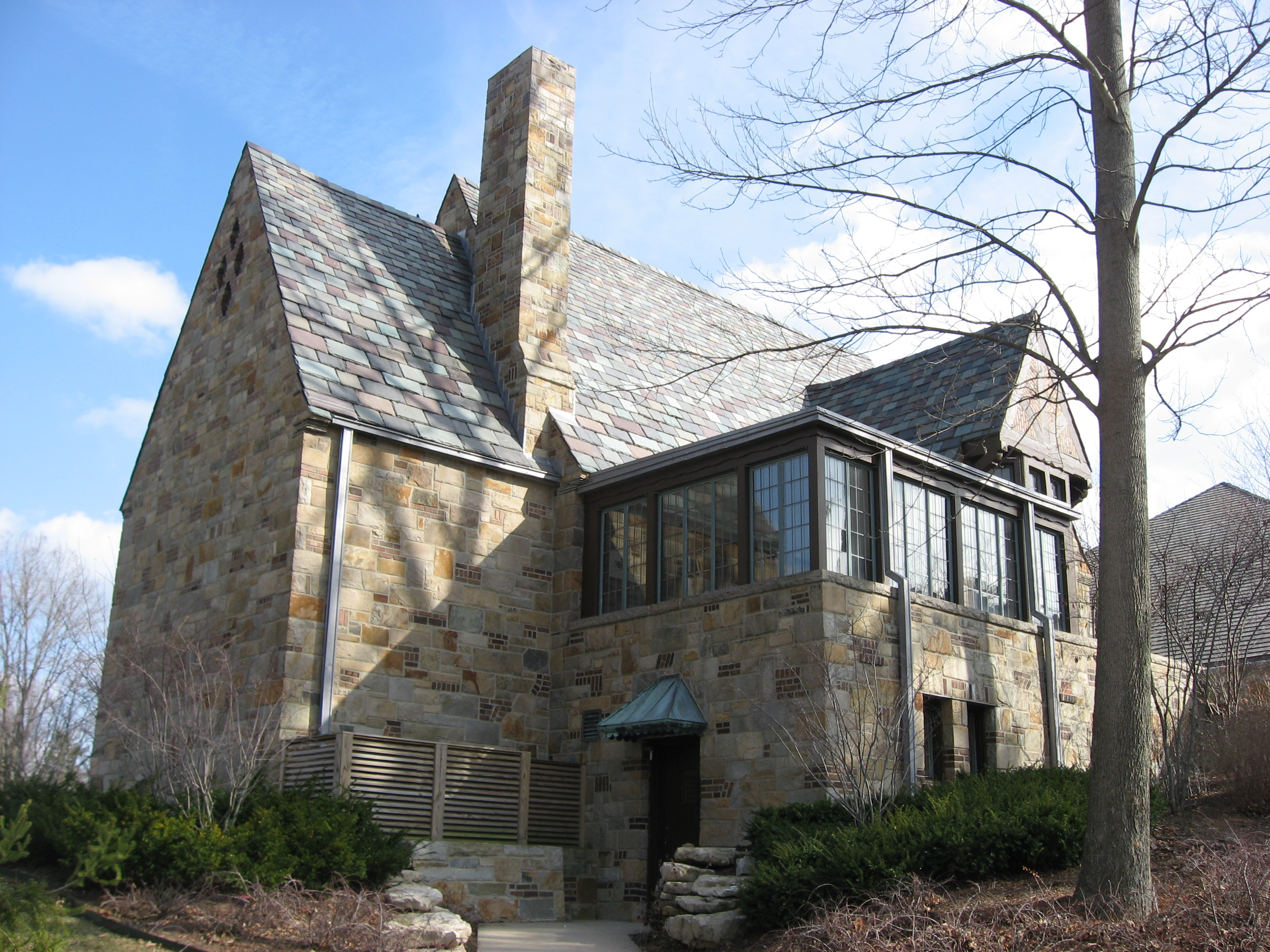 Front of Foster Hall, located on the campus of Park Tudor School in Indianapolis, Indiana, United States. Built in 1927, it is listed on the National Register of Historic Places.